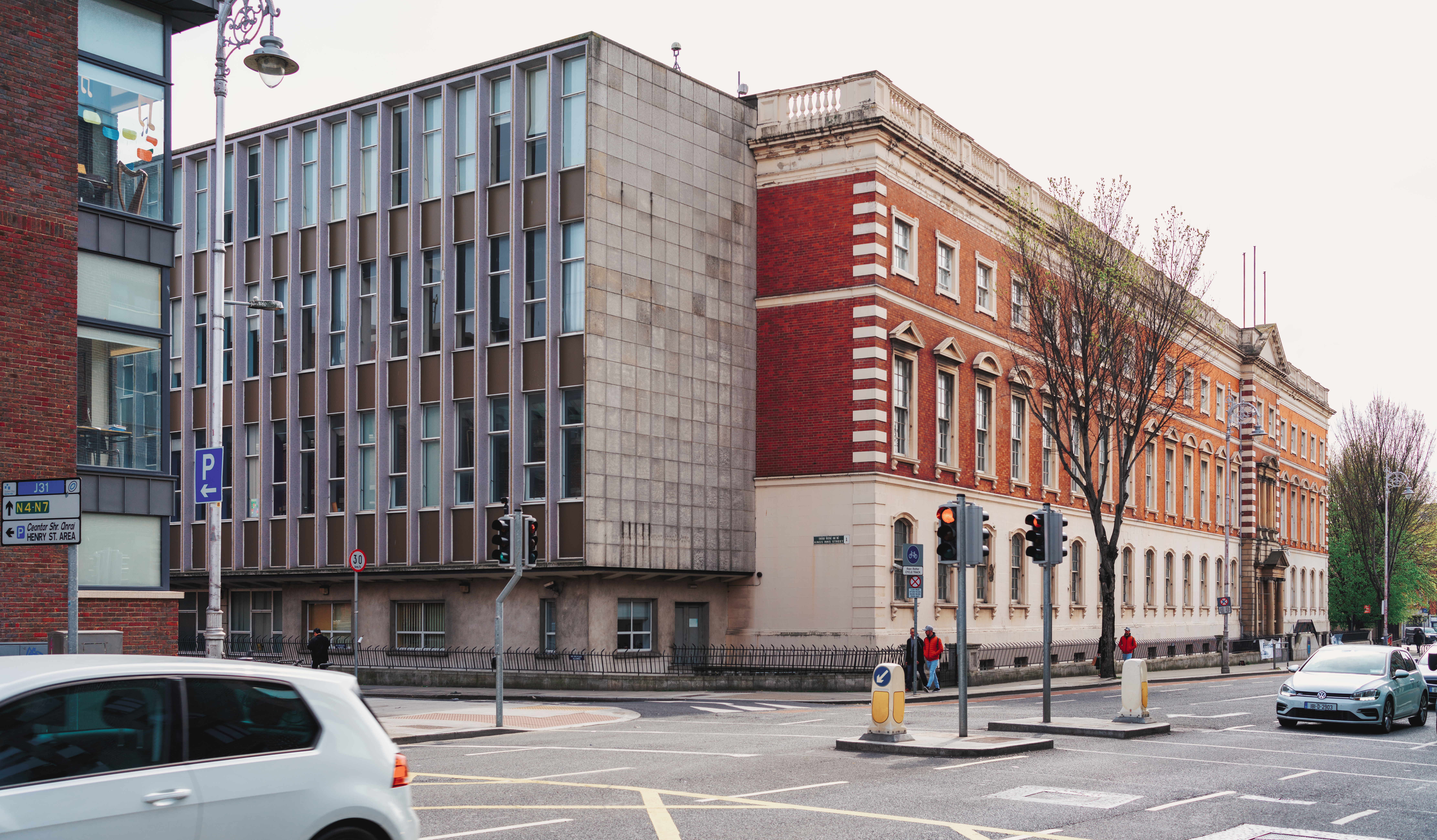 The alliance of Dublin Institute of Technology, Institute of Technology Blanchardstown and Institute of Technology Tallaght is set to become the first Technological University (TU Dublin) in Ireland. The University will be located on three campuses at Grangegorman, Blanchardstown and Tallaght creating an inclusive and open learning experience offering pathways to graduation from apprenticeship to PhD level to a diverse range of students. DIT campuses in Kevin Street, Cathal Brugha Street and Rathmines will move to Grangegorman in 2020, while the Aungier Street campus will relocate in 2021. The Bolton Street relocation will take place at a later stage. The development of the Grangegorman Campus has accelerated with construction underway on two major PPP projects that will accommodate 10,000 students by September 2020. The students will include those currently studying in DIT buildings in Kevin Street, Rathmines and Cathal Brugha Street. My understanding is that when Grangegorman is fully operational there will be about 20,000 students and this is going to have a huge impact [could be a combination of positive and negative or either] on me as I live at the edge of the campus. There are already a number of student complexes under construction close to my apartment. Also the property beside my apartment is due to be redeveloped as student accommodation.